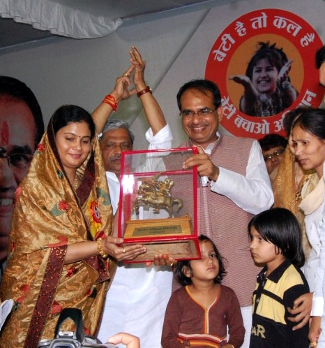 This file shows Gwalior Mayor Sameeksha Gupta and Shivraj Singh Chouhan at Ladli Laxmi event.